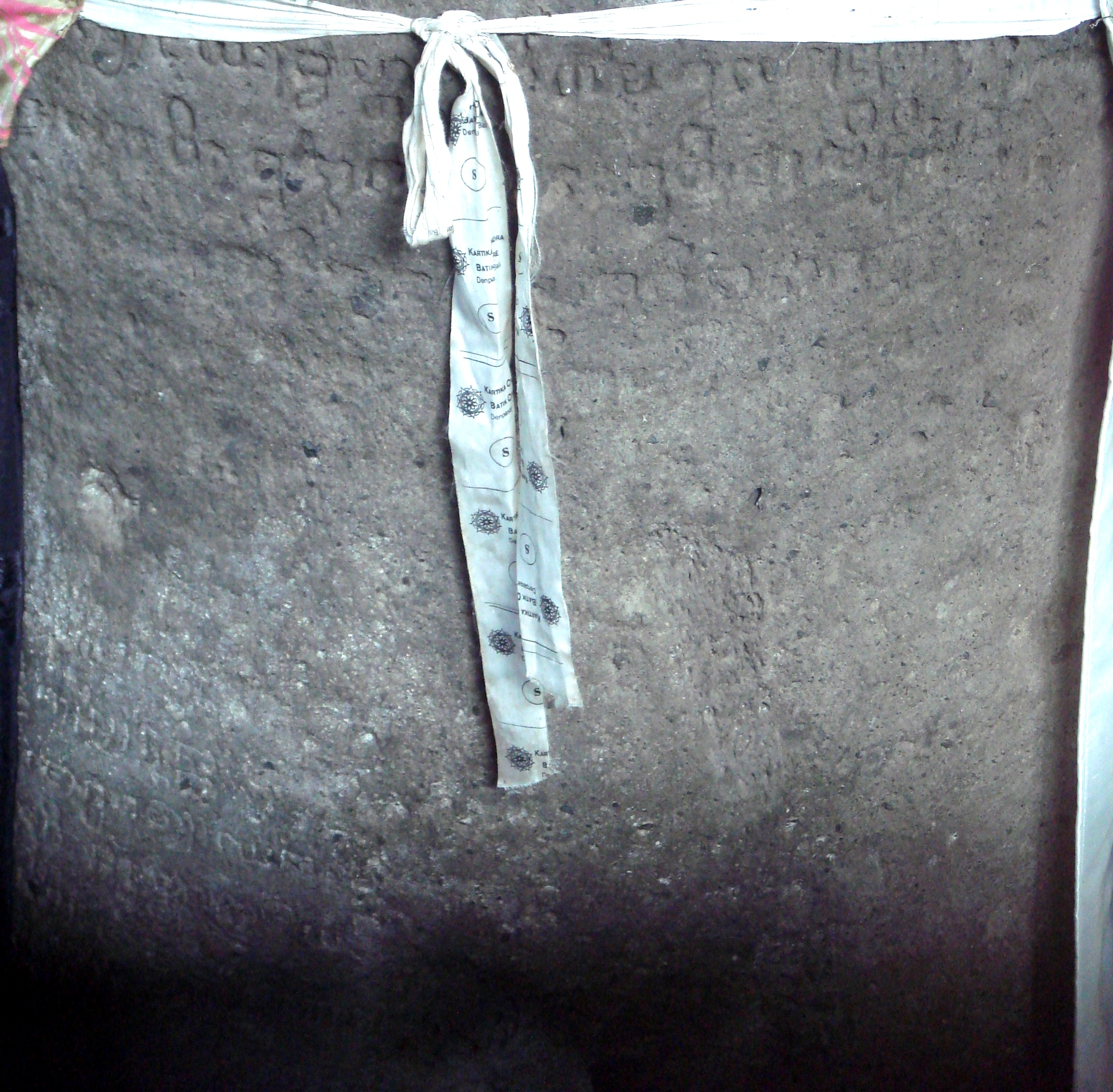 Sanur_Pilar_top_inscription